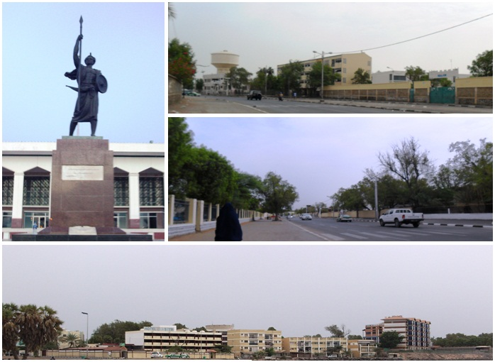 Djibouti City Soomaaliga: Jabuuti (magaalo)